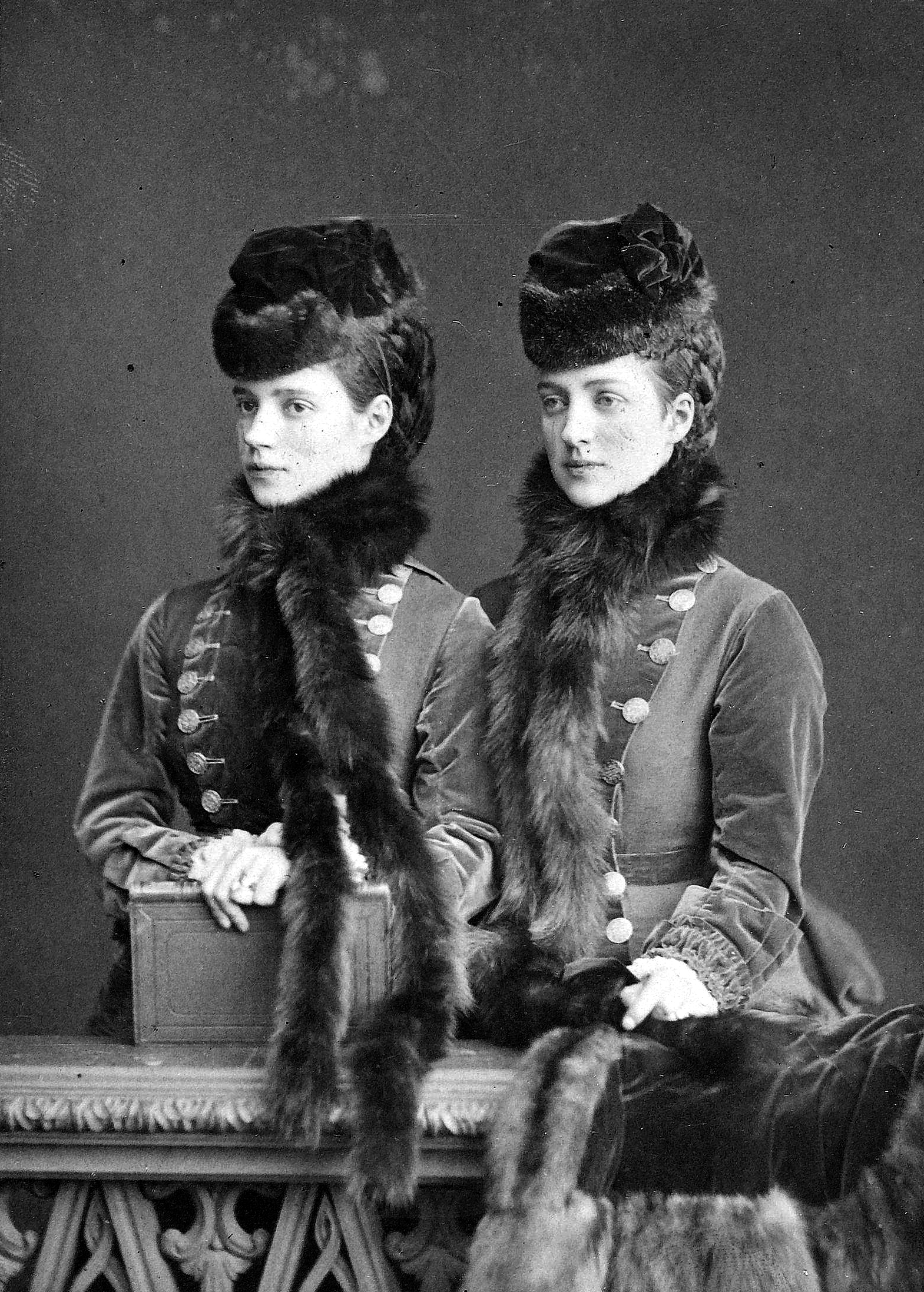 Alexandra and Dagmar of Denmark, the future Queen of the United Kingdom and Empress of Russia, respectively.